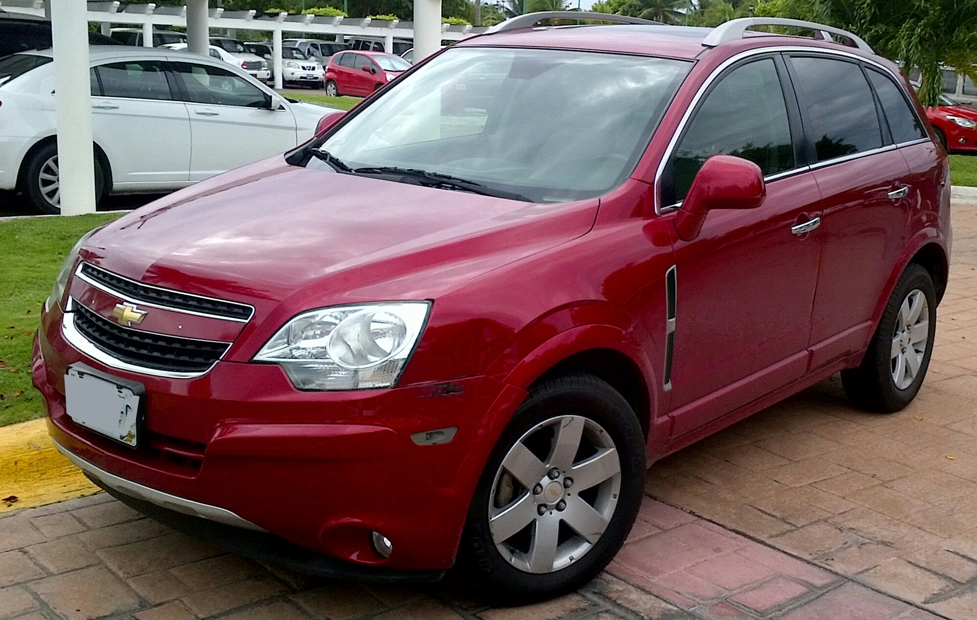 2010.5-2012 Chevrolet Captiva Sport photographed in Cancun, Quintana Roo, Mexico.